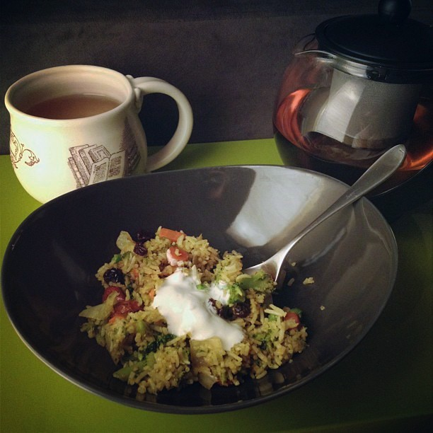 Thalassery Chicken Biriyani with Raita